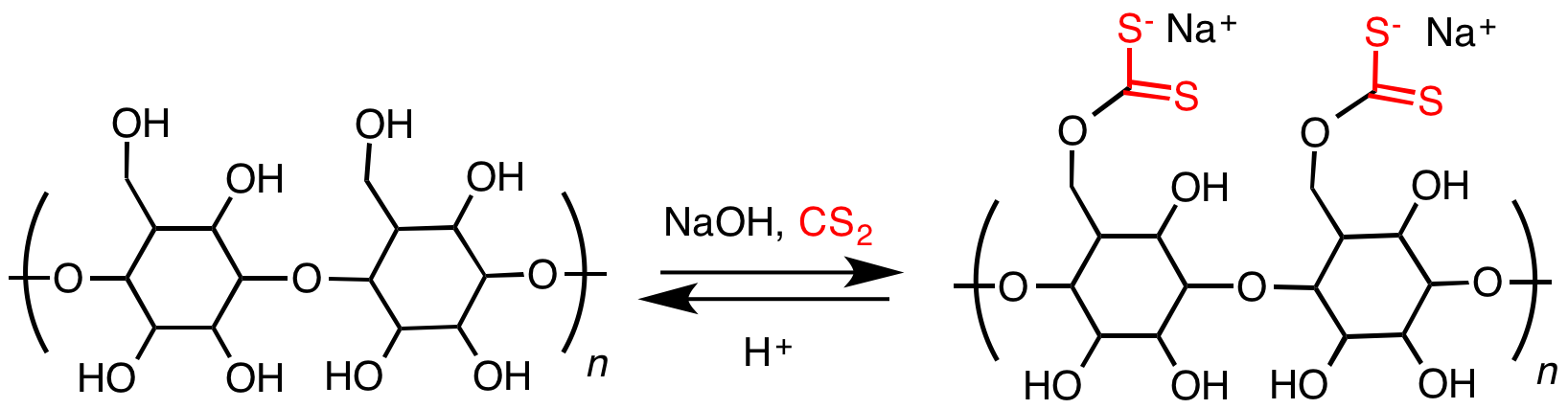 proposed improved image of reaction of CS2 + cellulose